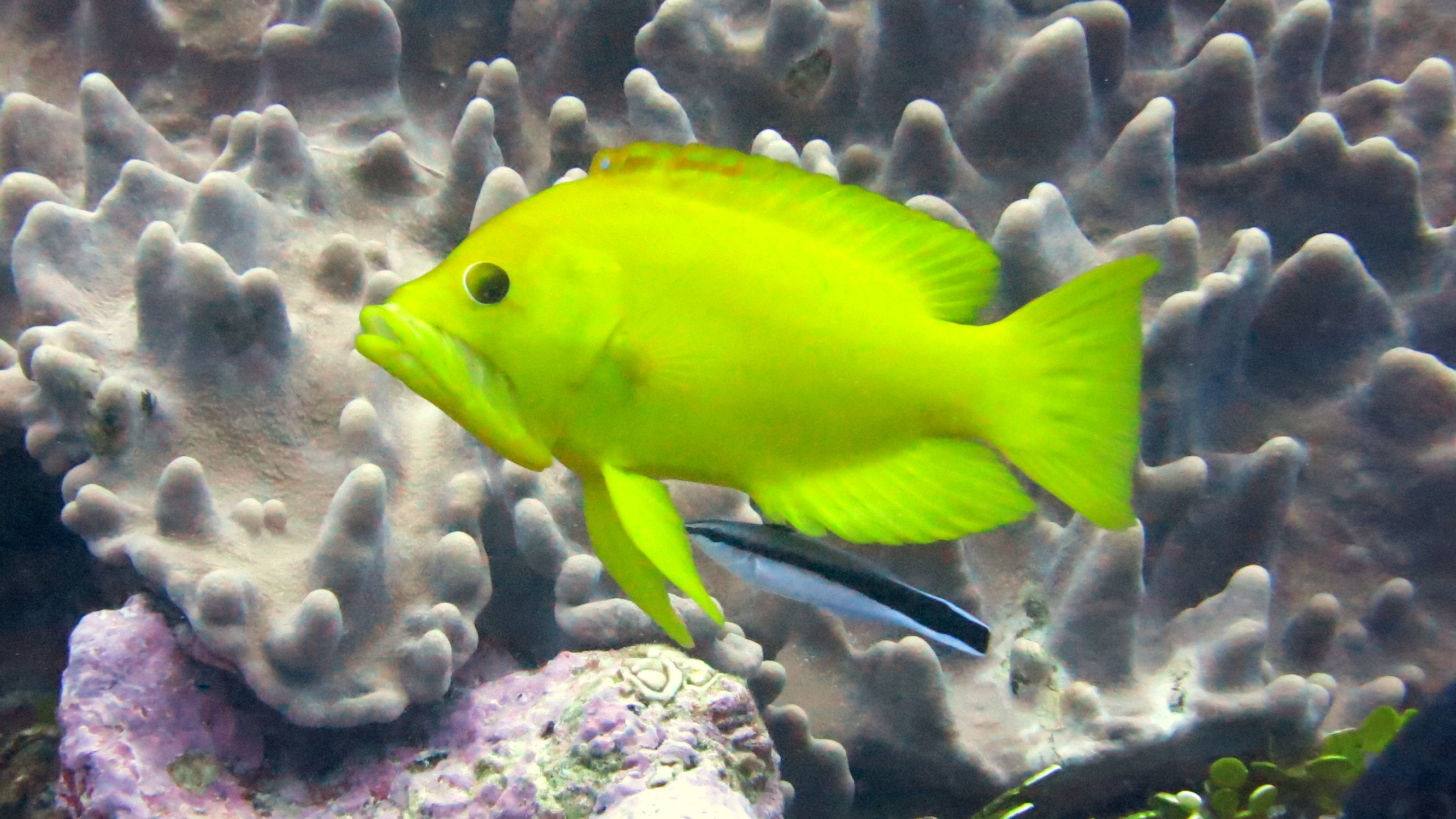 Slingjaw wrasse (Epibulus insidiator) Image ID: corl0244, NOAA's Coral Kingdom Collection Location: Pacific Remote Islands, Palmyra Atoll Photo Date: 2015 Photographer: Kevin Lino NOAA/NMFS/PIFSC/ESD